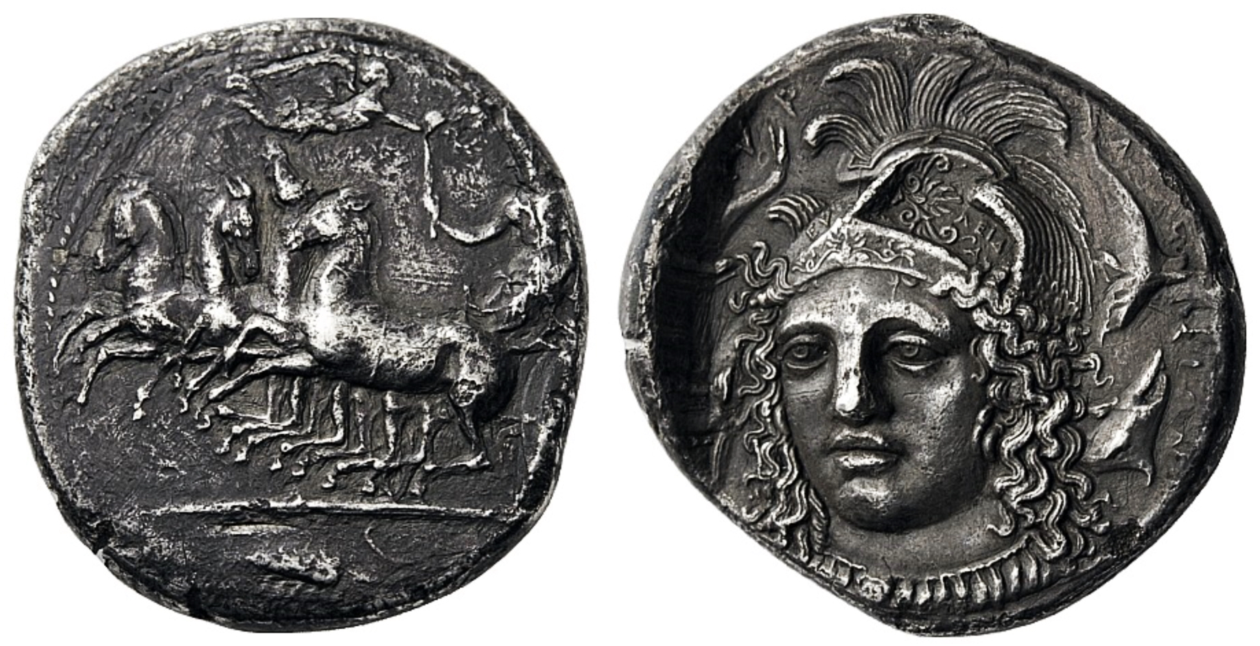 Athena portrait by Eukleidas on Syracuse tetradrachm c. 400 BC (28 mm, 16.56 g)[1] ↑ Sear, David R. (1978). Greek Coins and Their Values . Volume I: Europe (pp. 99, coin # 941). Seaby Ltd., London. ISBN 0 900652 46 2